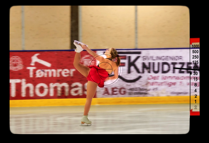 Illustration of the image seen through Canon AV-1's finder. The picture was taken in Asker, Norway 2006.